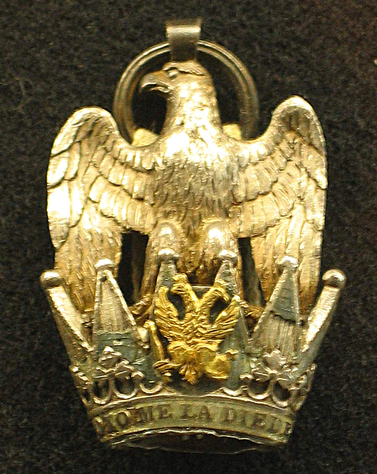 Austrian order of the Iron Crown author User:Mathiasrex Maciej Szczepańczyk